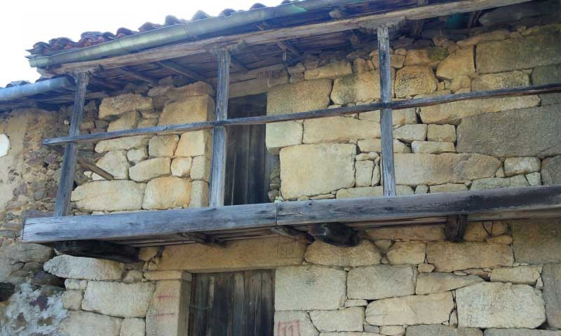 O Reboleo (Ourense)